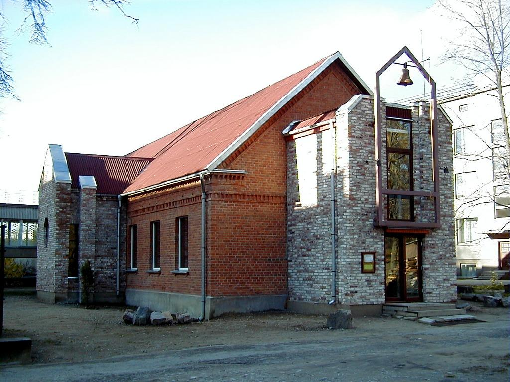 Talsi Most Holy Virgin Mary Church (before remodeling)